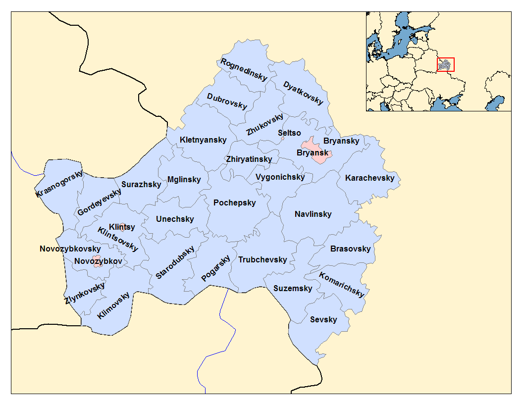 Map of the administrative divisions of Bryansk Oblast in Russia. Created by Rarelibra 19:22, 30 March 2007 (UTC) for public domain use, using MapInfo Professional v8.5 and various mapping resources.